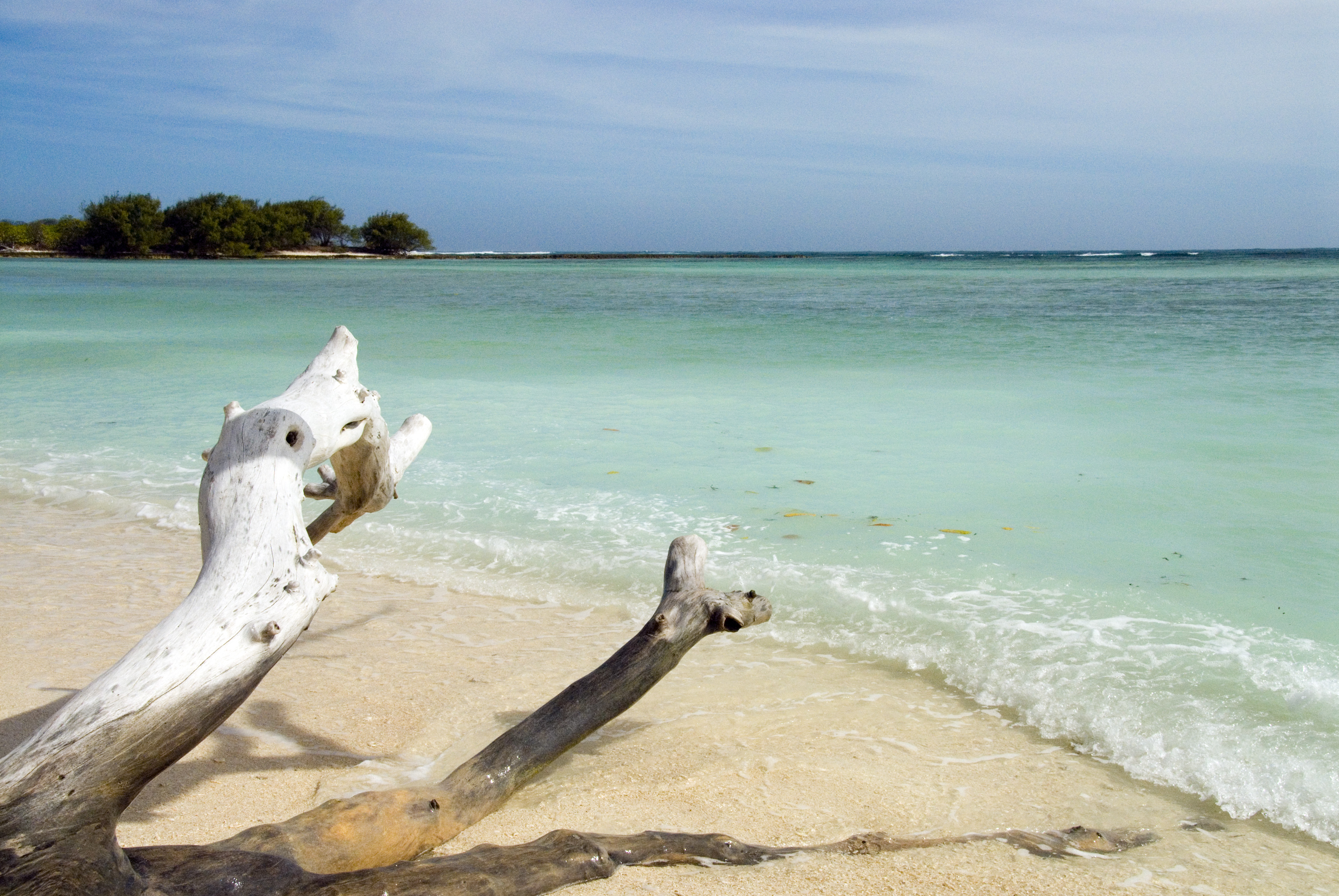 Desroches Island, beach on the west side of the island